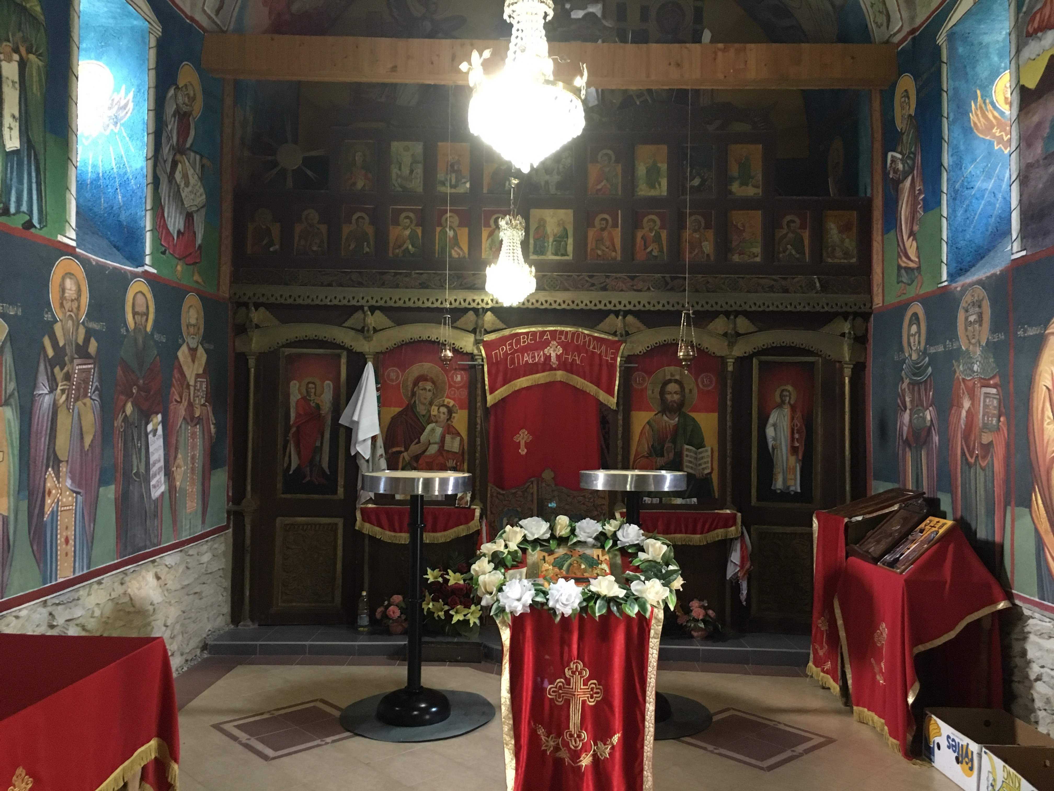 The interior of Nativity of the Theotokos Church in the village of Zavoj